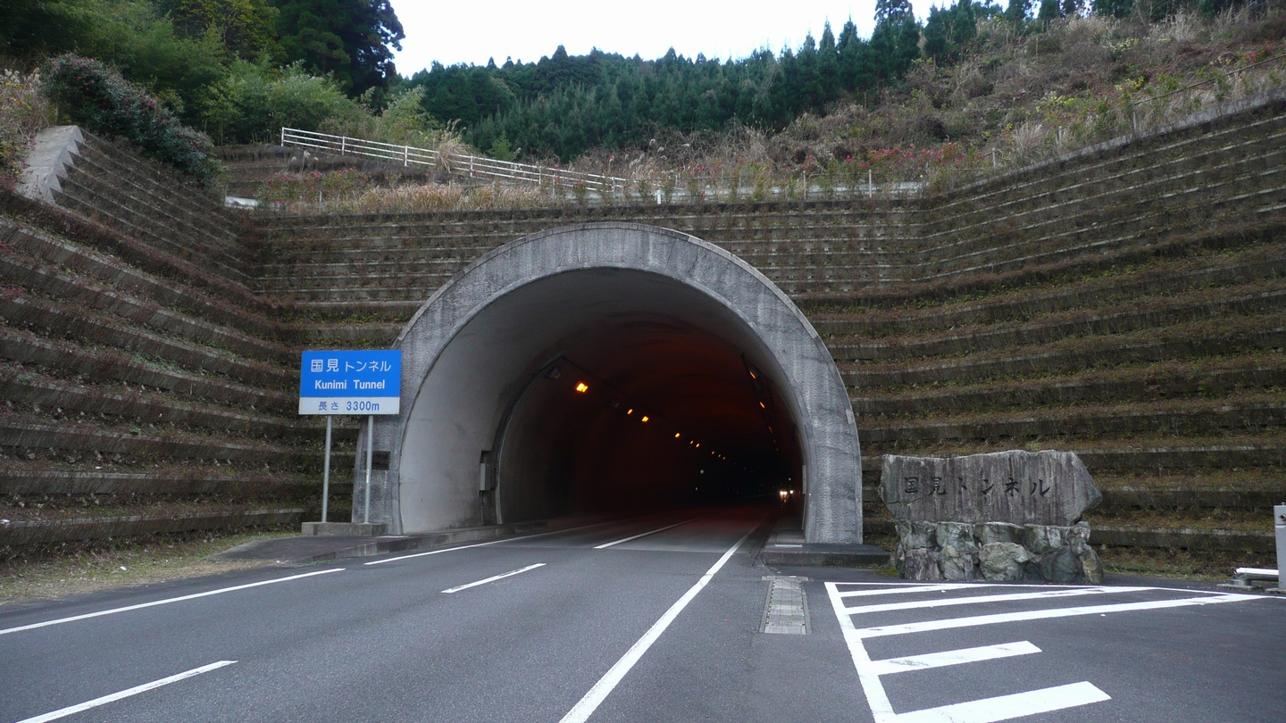 Kunimi Tunnel (Kagoshima Prefectural Road 561 - Kimotsuki Town, Kagoshima, Japan)